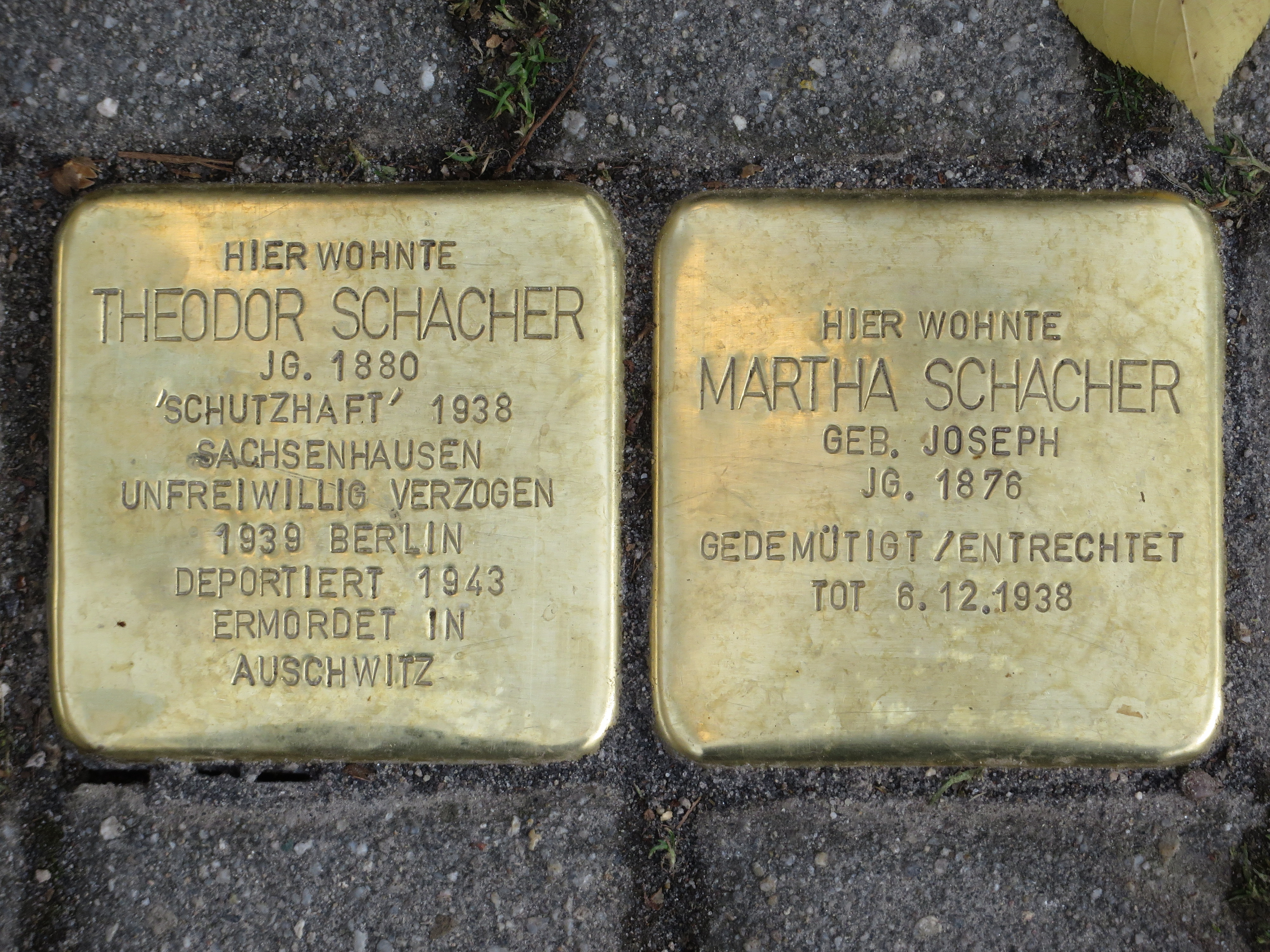 Stolpersteine at house Lutherstraße 34 in Witten, Germany